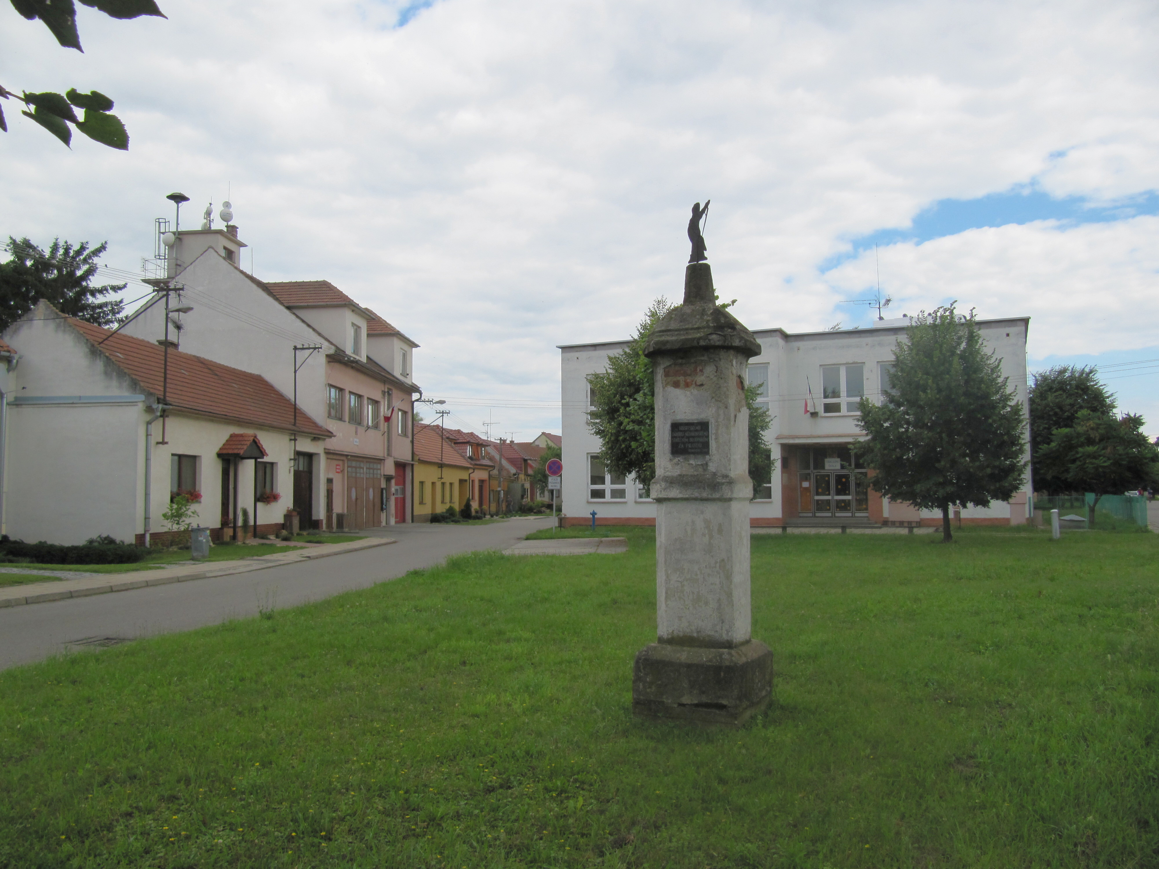 Nedakonice in Uherské Hradiště District, Czech Republic. The so-called Hussite column on the common, left the municipal office, behind the school.